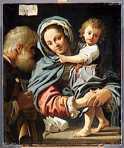 The Holy Family